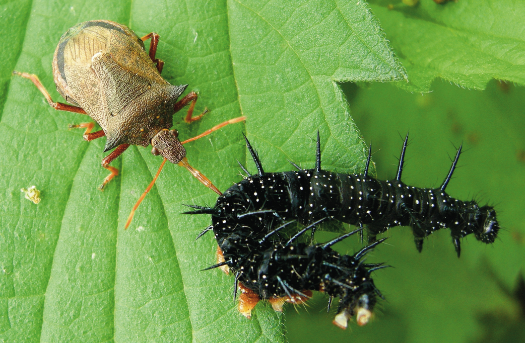 Predatory shieldbug (Picromerus bidens) devouring a caterpillar (Inachis io) on a nettle leaf.